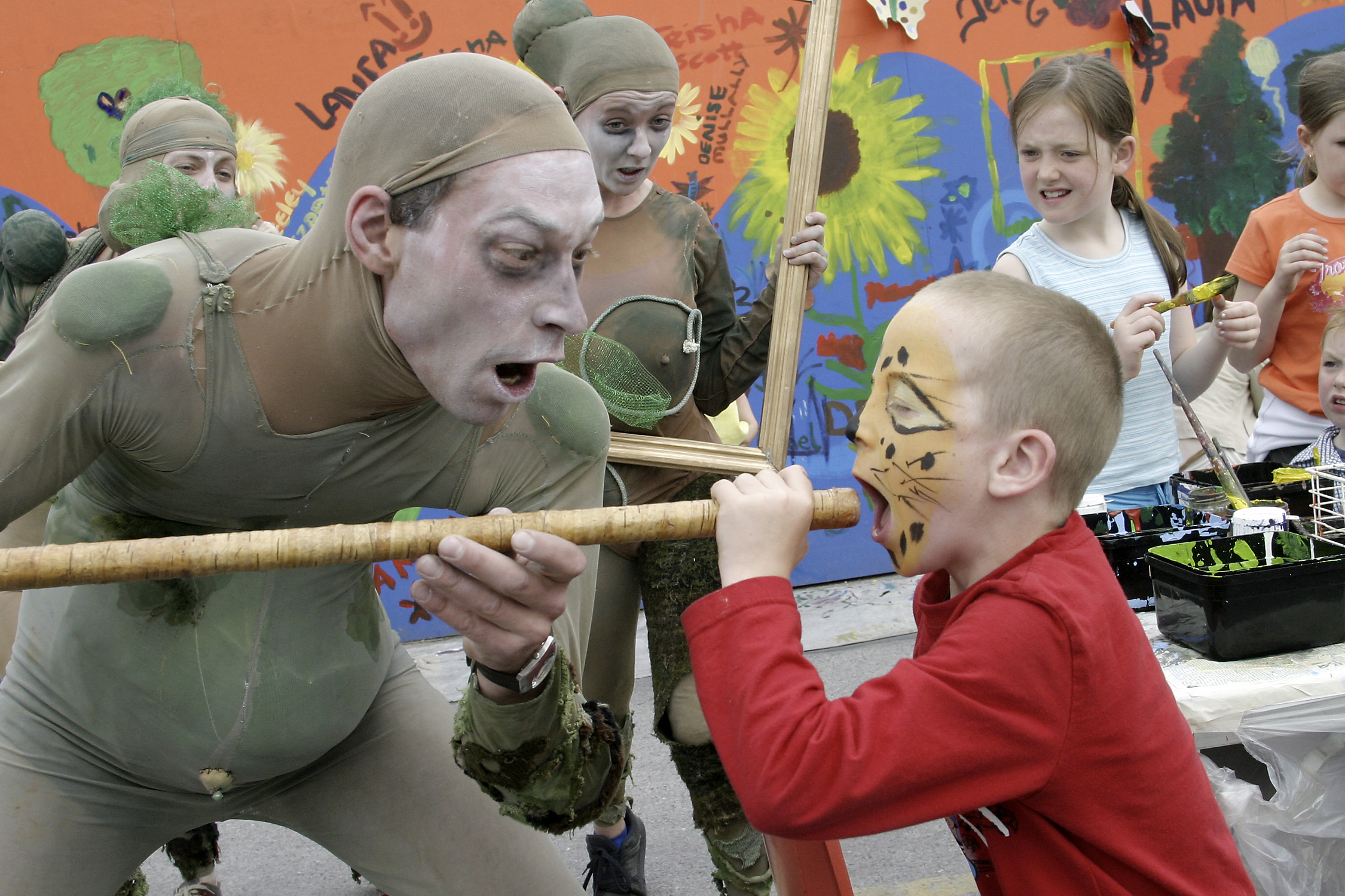 Street performance at Junction 7.04